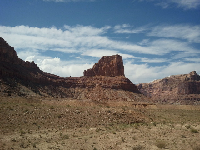 Emery County, Utah. Photo by: Matthew Gochis Gochis3